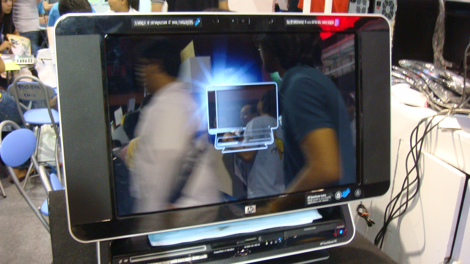 HP TouchSmart